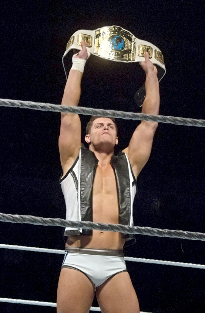 Cody Rhodes posing with the WWE Intercontinental Championship in January 2012 at a WWE house show.